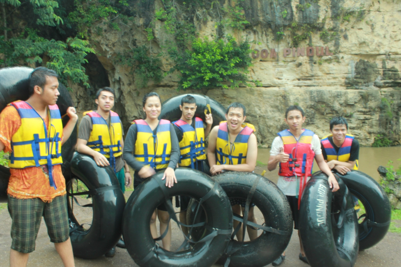 The Pindul Cave known for cave tubing above underground river inside the cave.